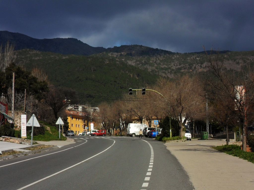 View of Piedralaves (Ávila, Castile and León, Spain).